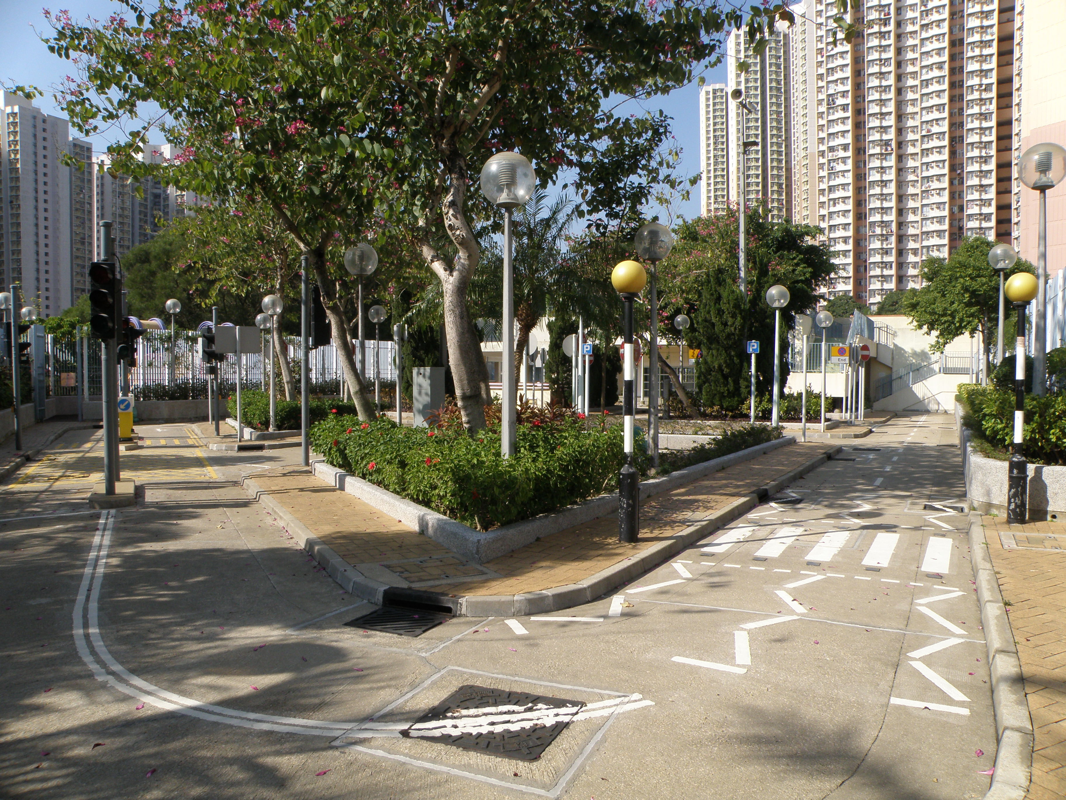 Sau Mau Ping Road Safety Town in Sau Mau Ping, Hong Kong.